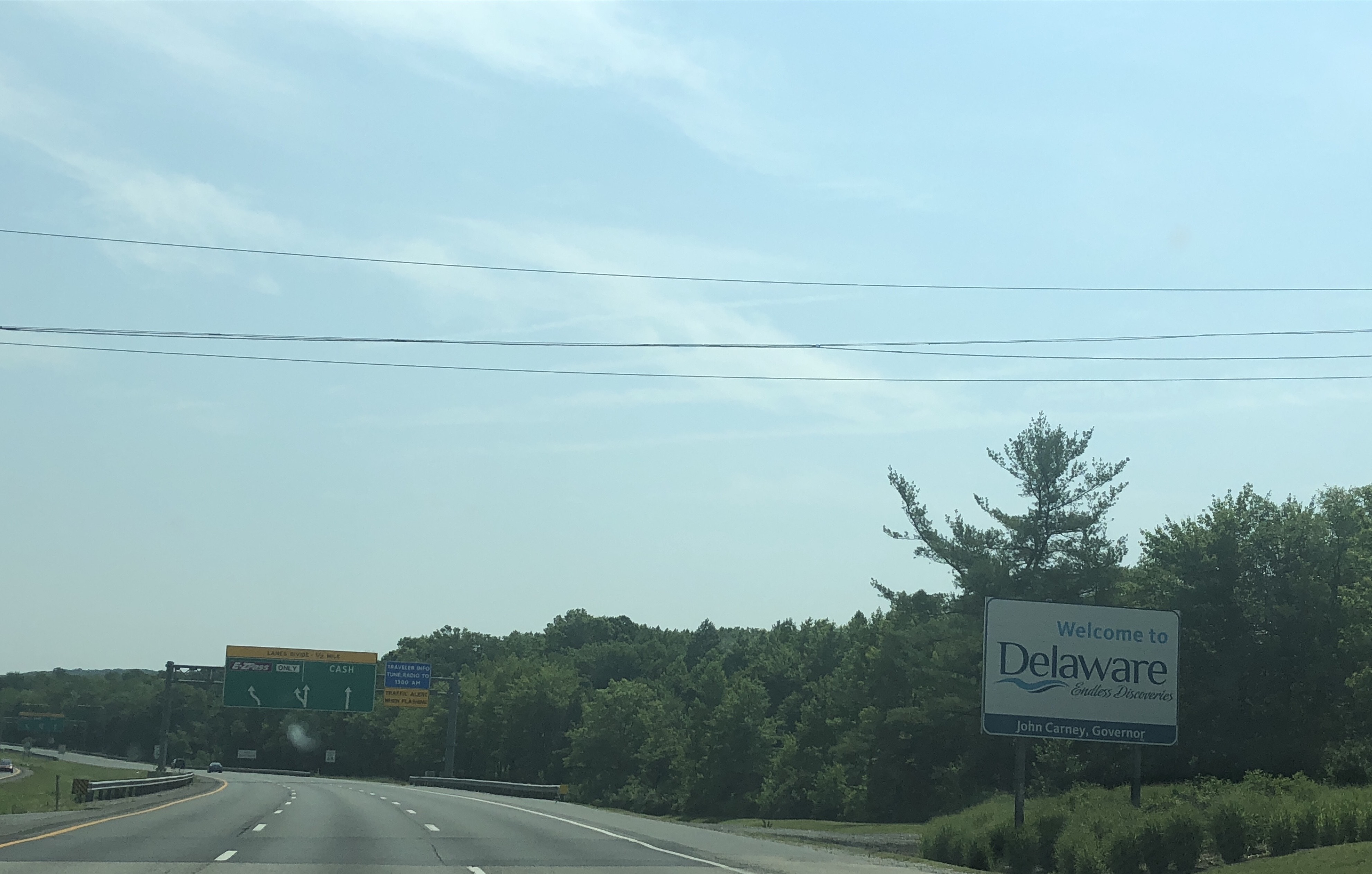 Welcome to Delaware sign on I-95 North